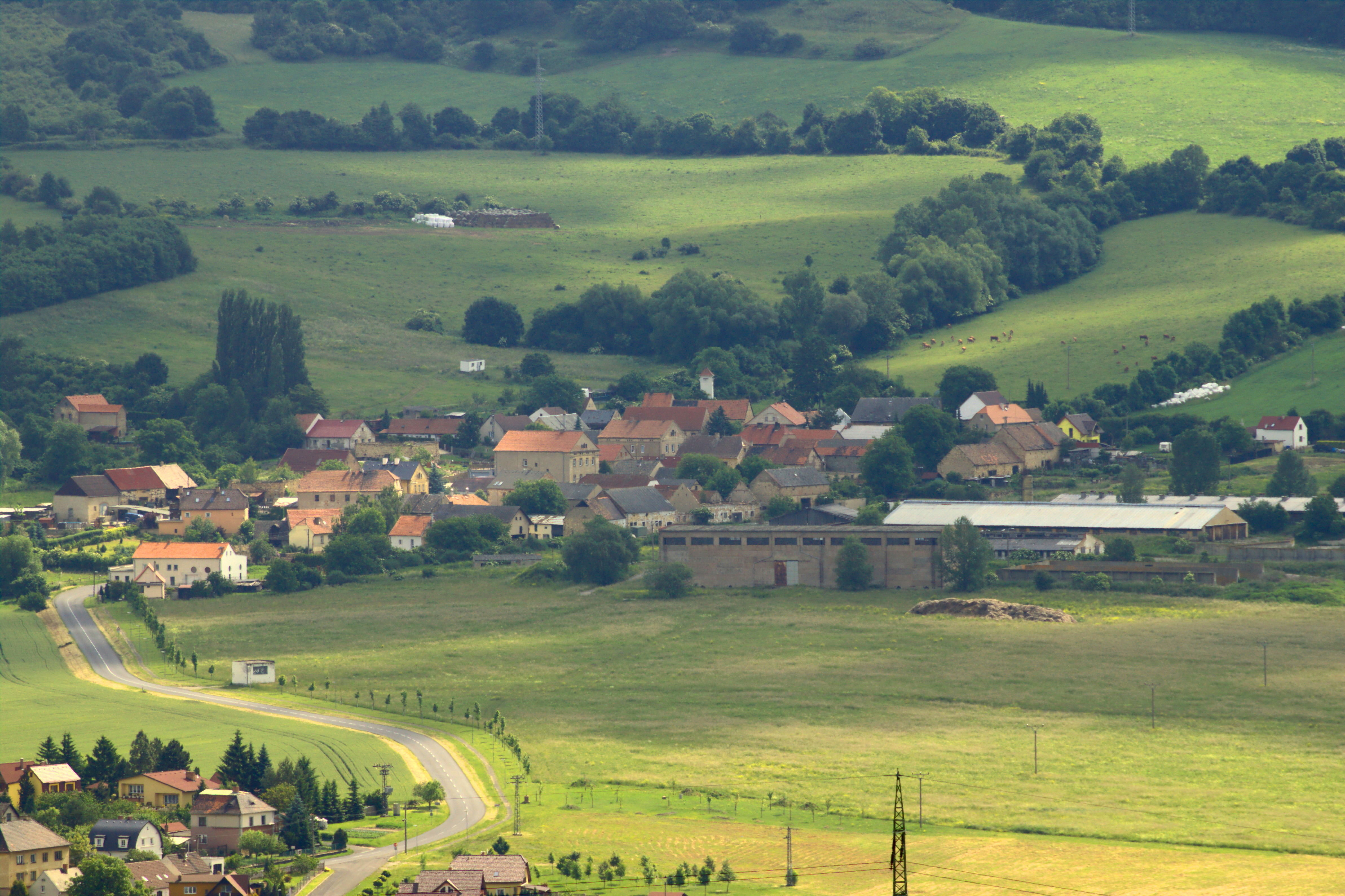 View of the Řepnice village from Prackovice nad Labem, Ústí Region, CZ